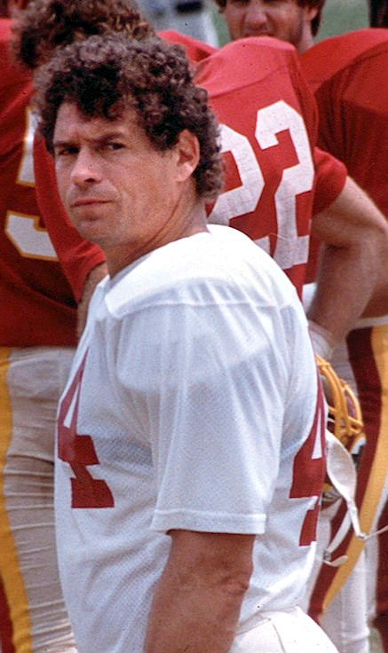 Washington Redskins running back John Riggins at Carlisle Training in 1983. Photo by Ted Van Pelt